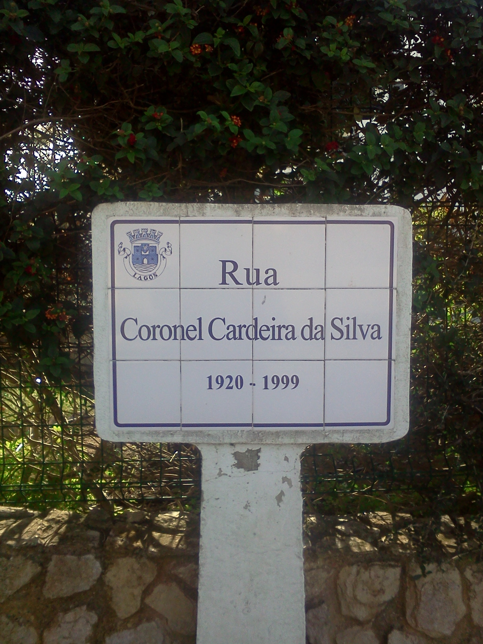 Street sign of Rua Coronel Cardeira da Silva, in the city of Lagos, in southern Portugal.